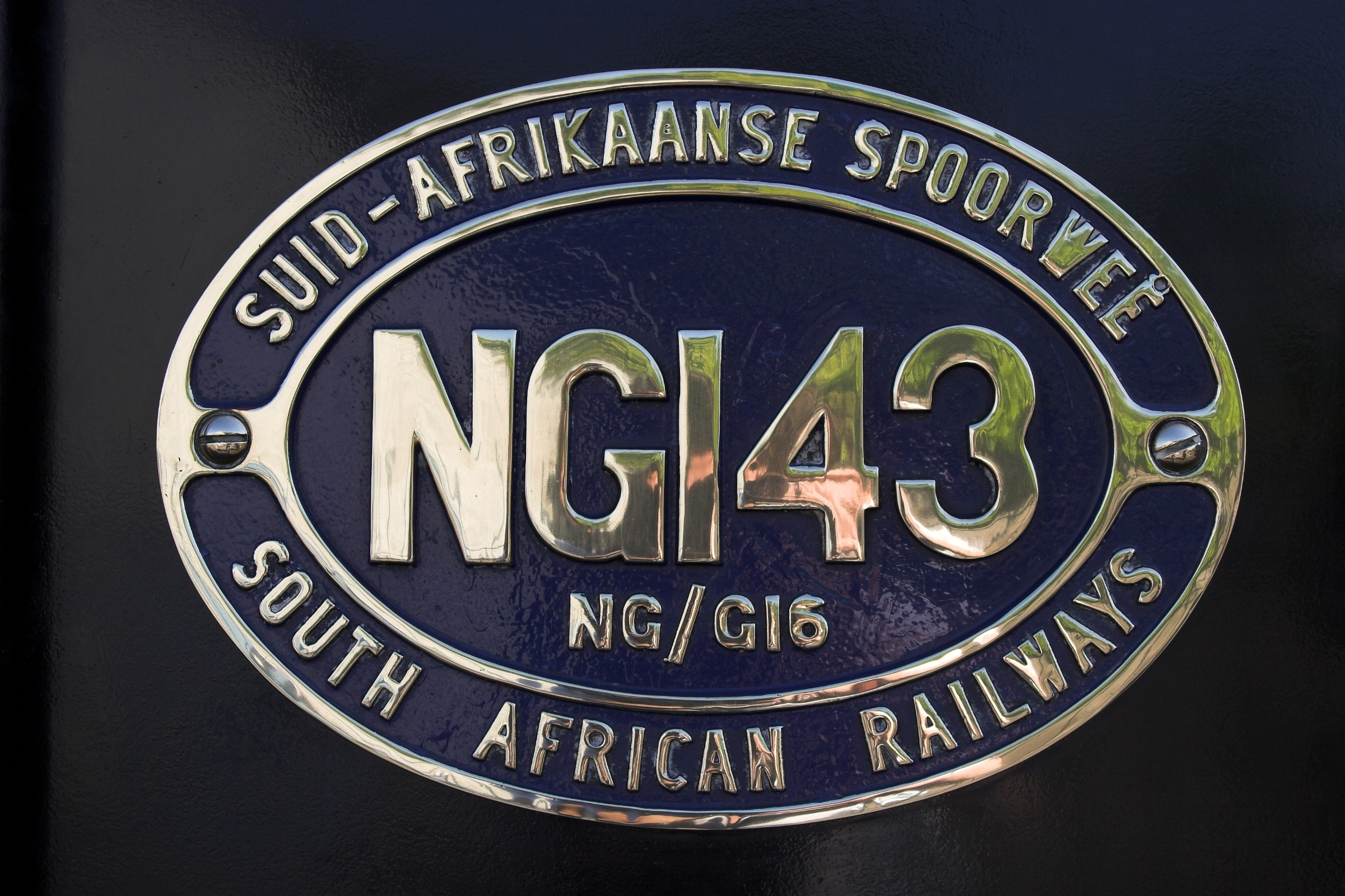 Number plate of Welsh Highland Railway NGG16 No.143.